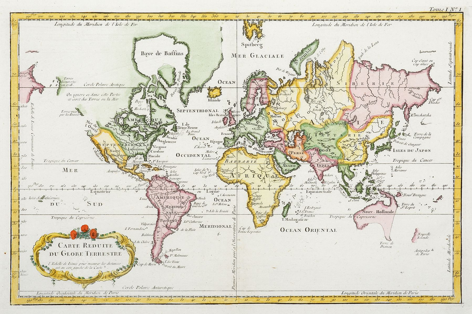 Detailed world map in Mercator projection showing the known parts of the globe, with cartouche and attractive compass rose. Map dated 1754, in French. Later also published in Bellin's Atlas 'Histoire des Voyages.', 1784.